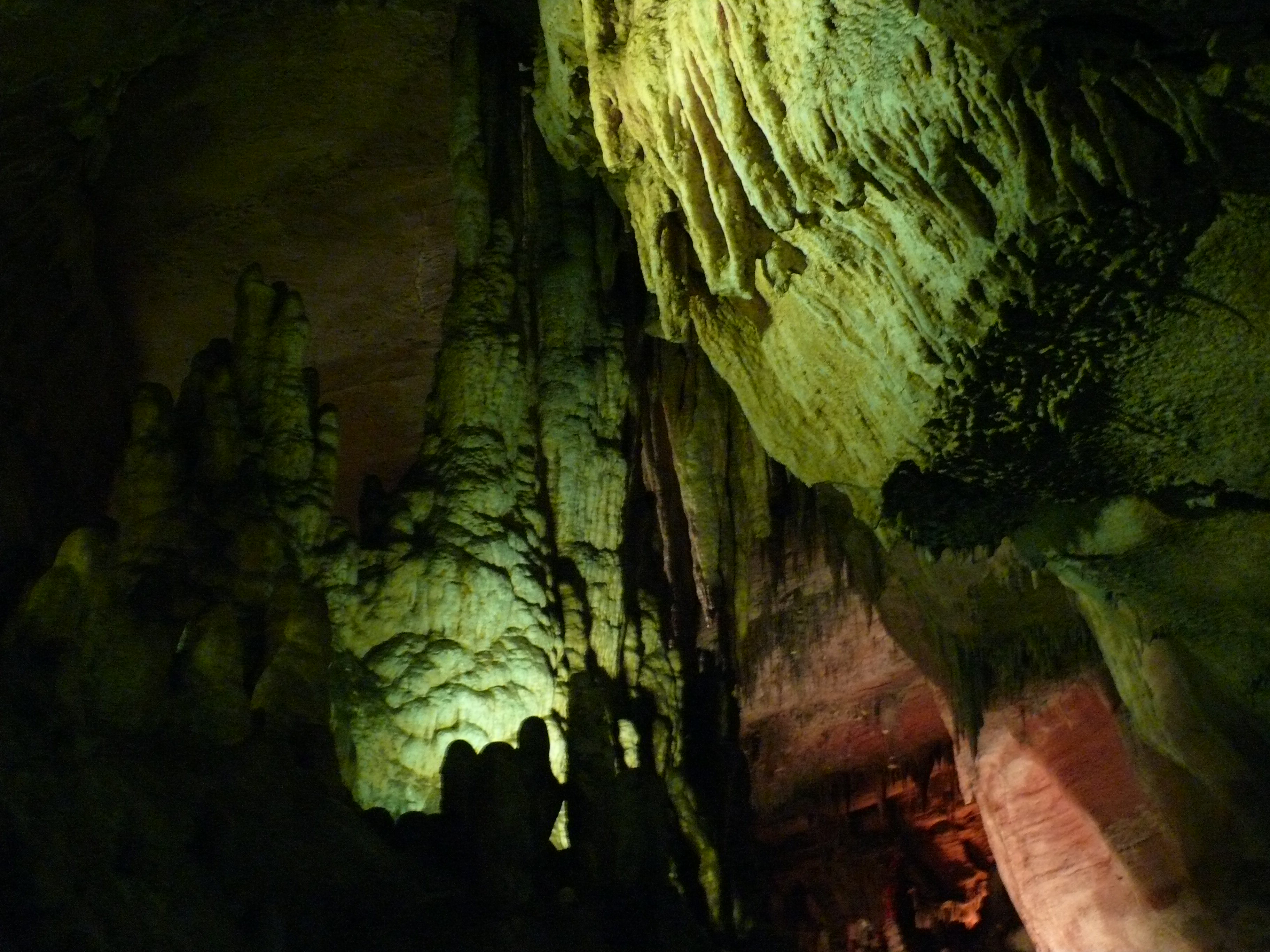 Sataplia karst caves